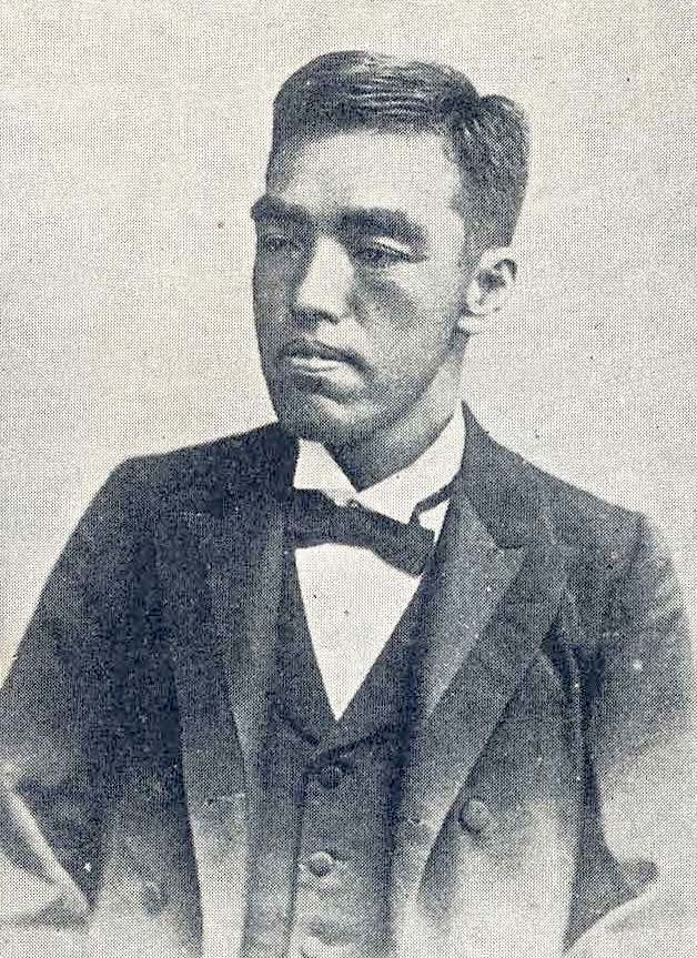 Kada Kinzaburō 賀田金三郎